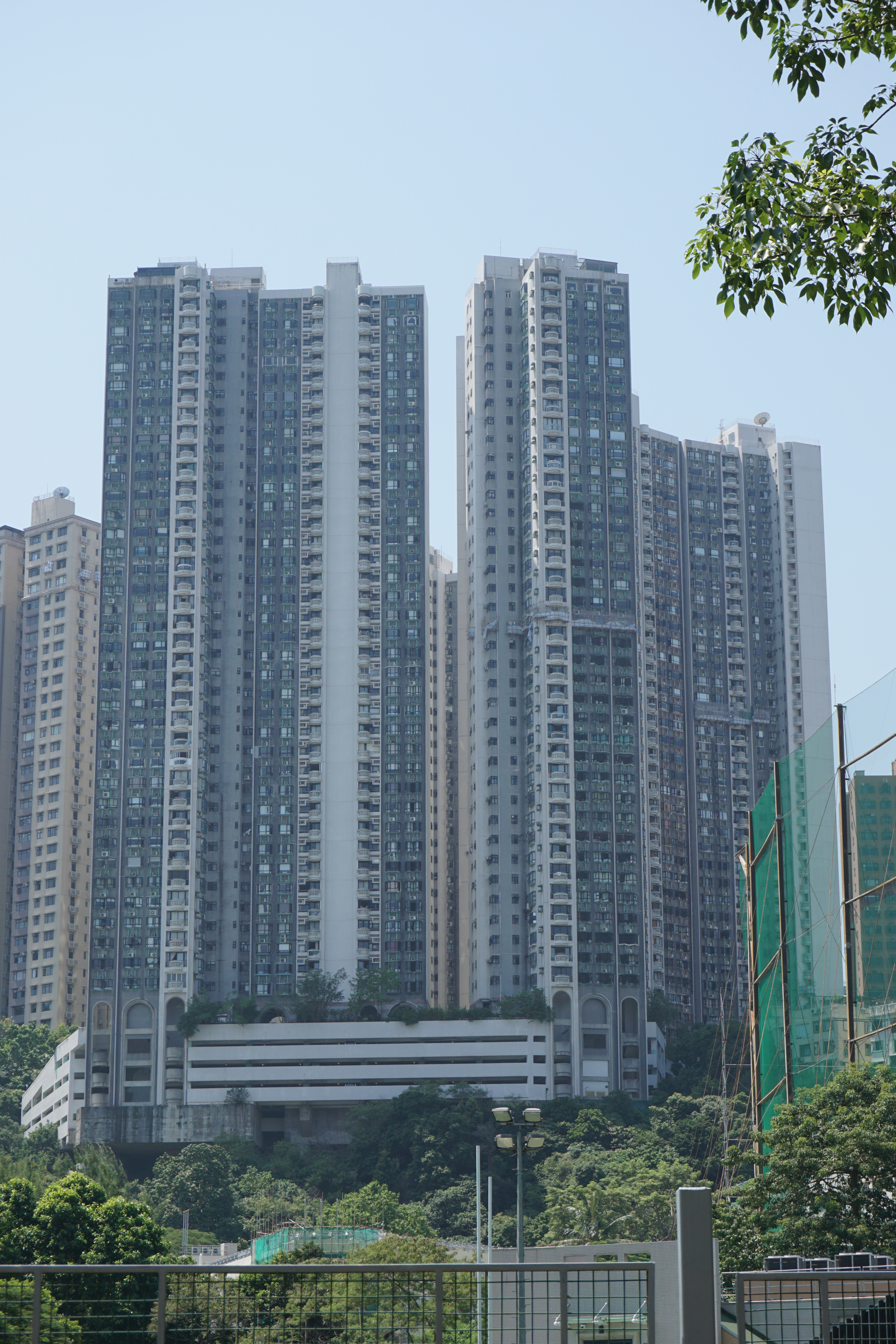 Beverly Hill in Happy Valley, Hong Kong.